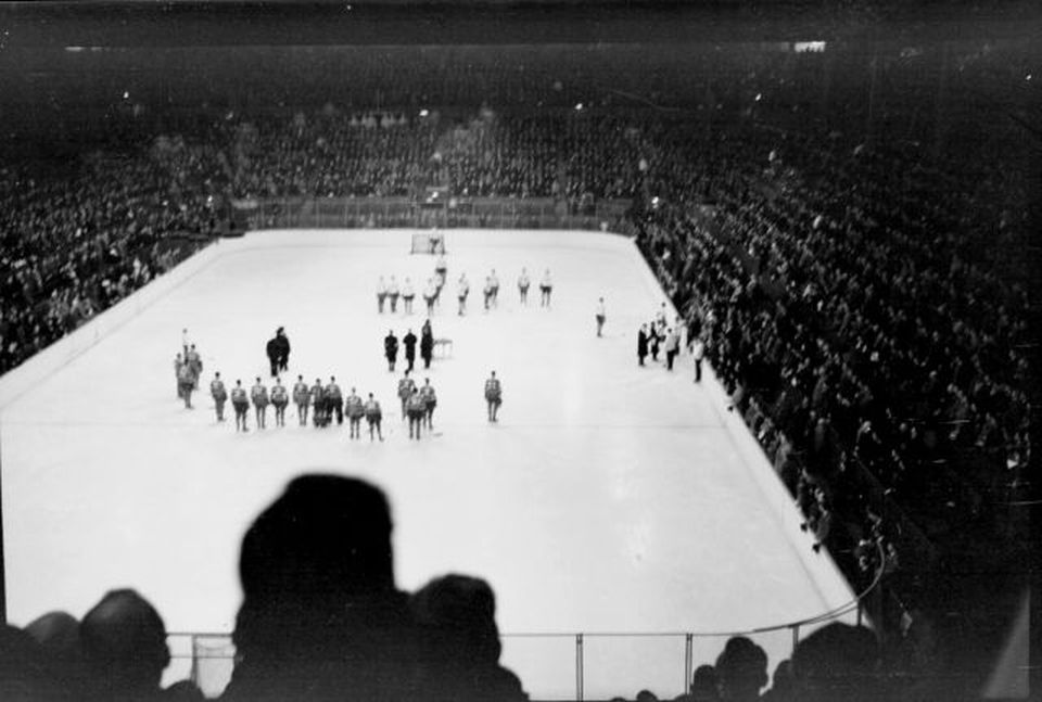 We see inside the Montreal Forum, located at 2313 rue Sainte-Catherine West, with the players of the two teams playing on the ice.